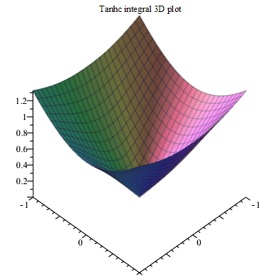 Tanhc integral 3D plot